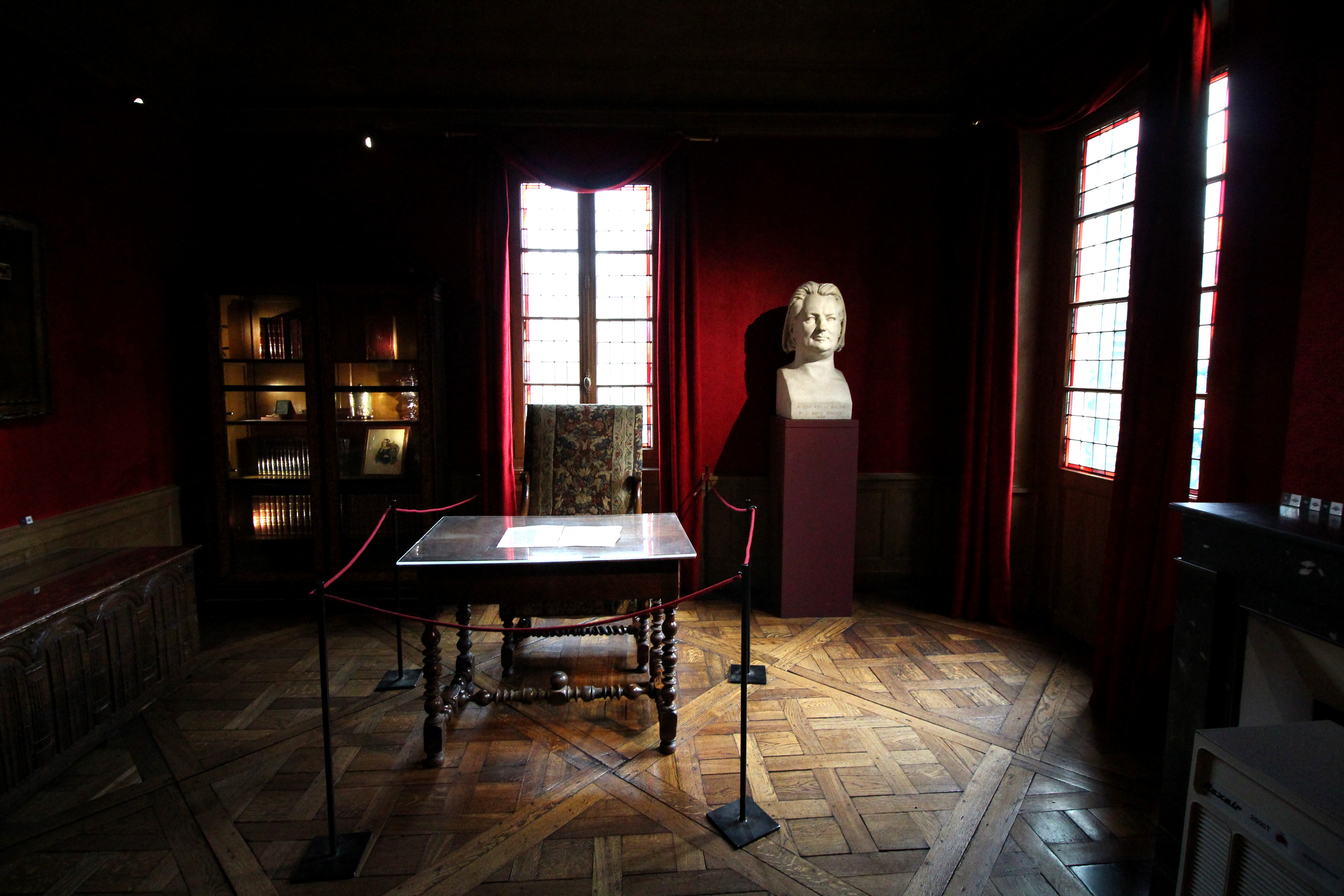 Maison de Balzac, 47, rue Raynouard, Paris.